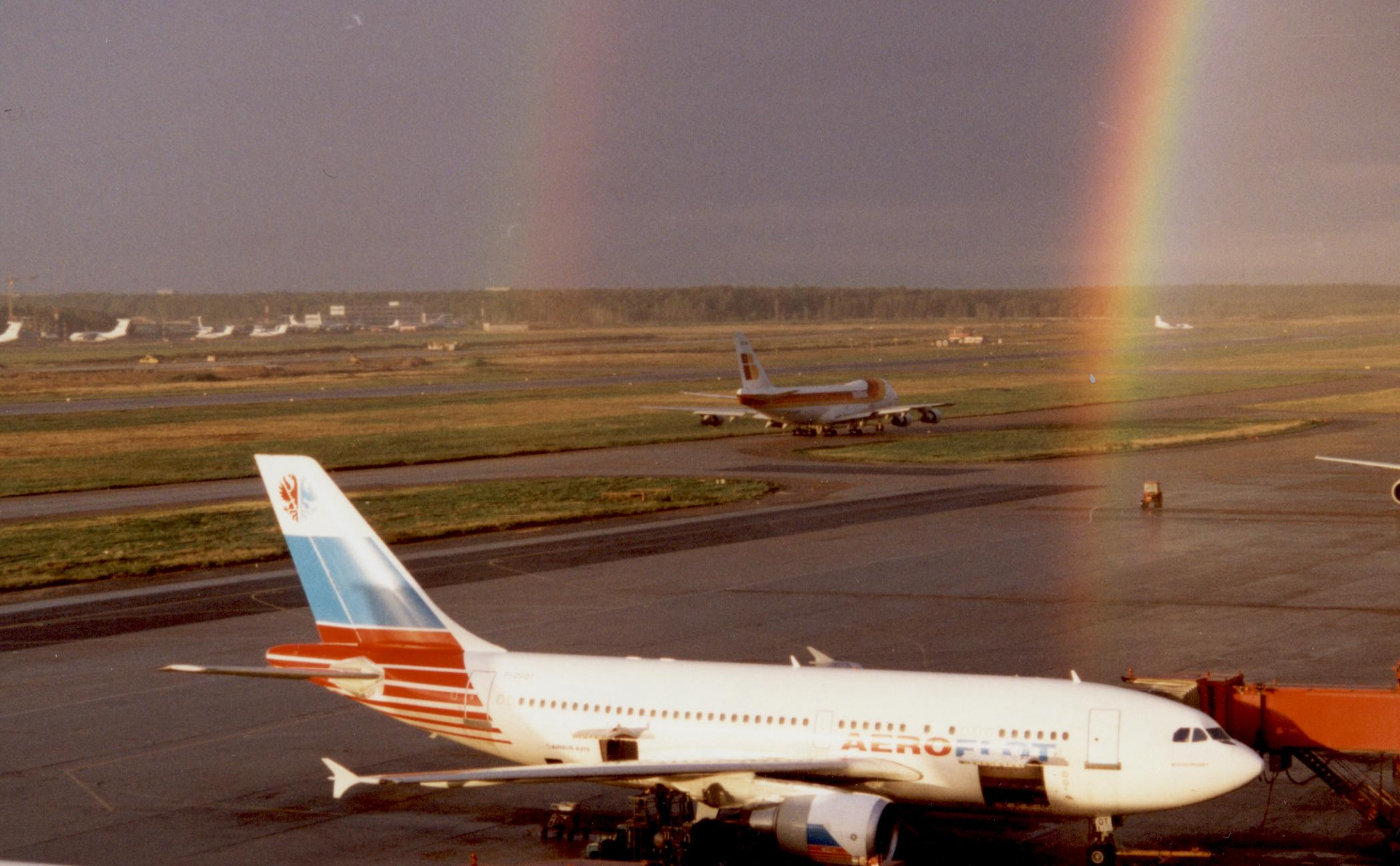 Aeroflot A310 aircraft at Moscow Sheremetyevo airport. An Iberia Boeing 747 can be seen behind